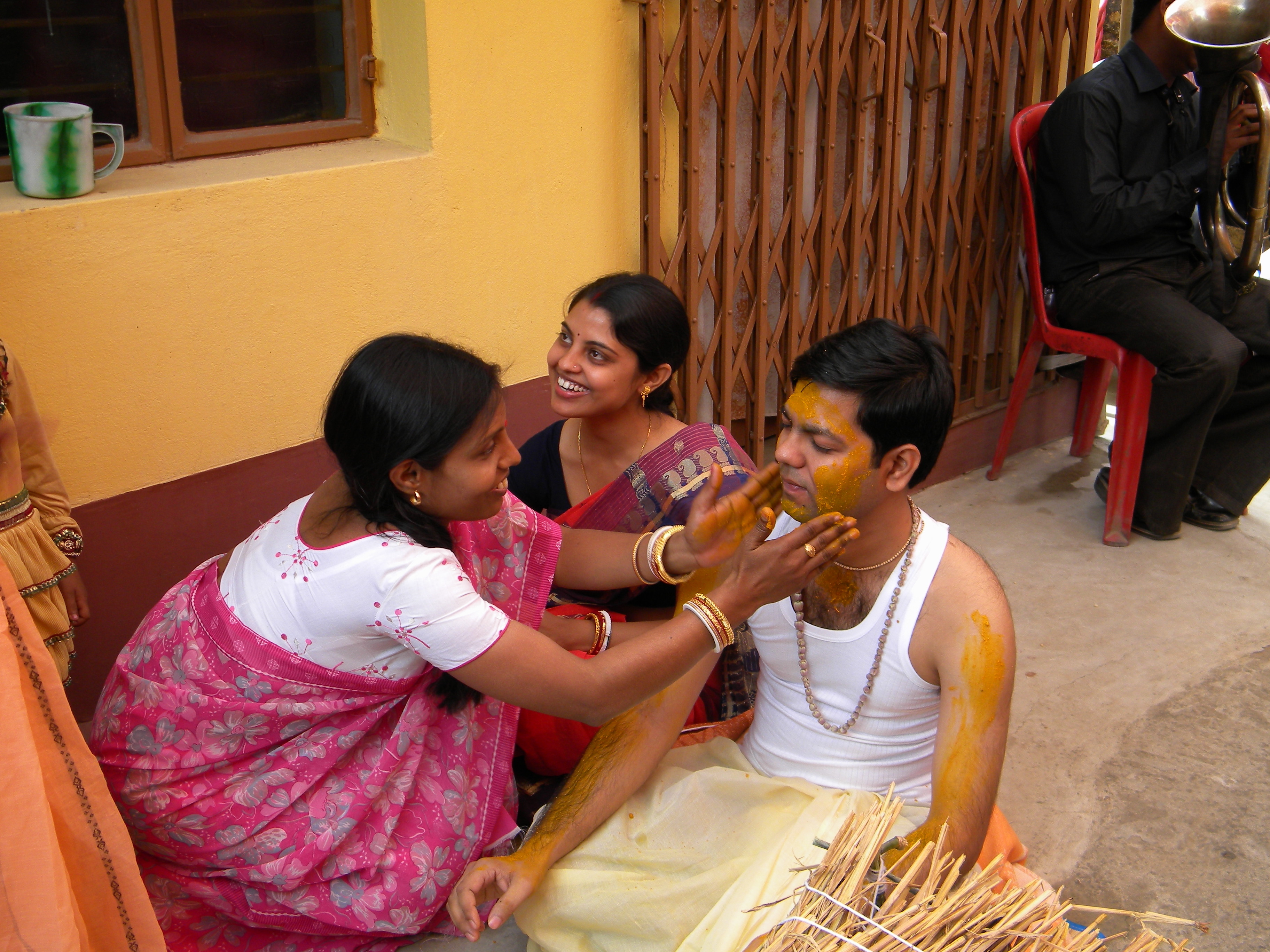 Gaye Holud is a ceremony observed mostly in the region of Bengalas a part of an elaborate series of celebrations constituting the Bengali Hindu wedding. Paste of turmeric is applied to the bodies of both bride and groom in their respective home separately by relatives and guests before marriage.